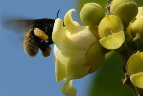 Eulaema mocsaryi female: Approach to flowers of Brazil nut (Bertholletia excelsa) by distinct bee species in a commercial cultivation in the county of Itacoatiara, state of Amazonas, Brazil, 2007